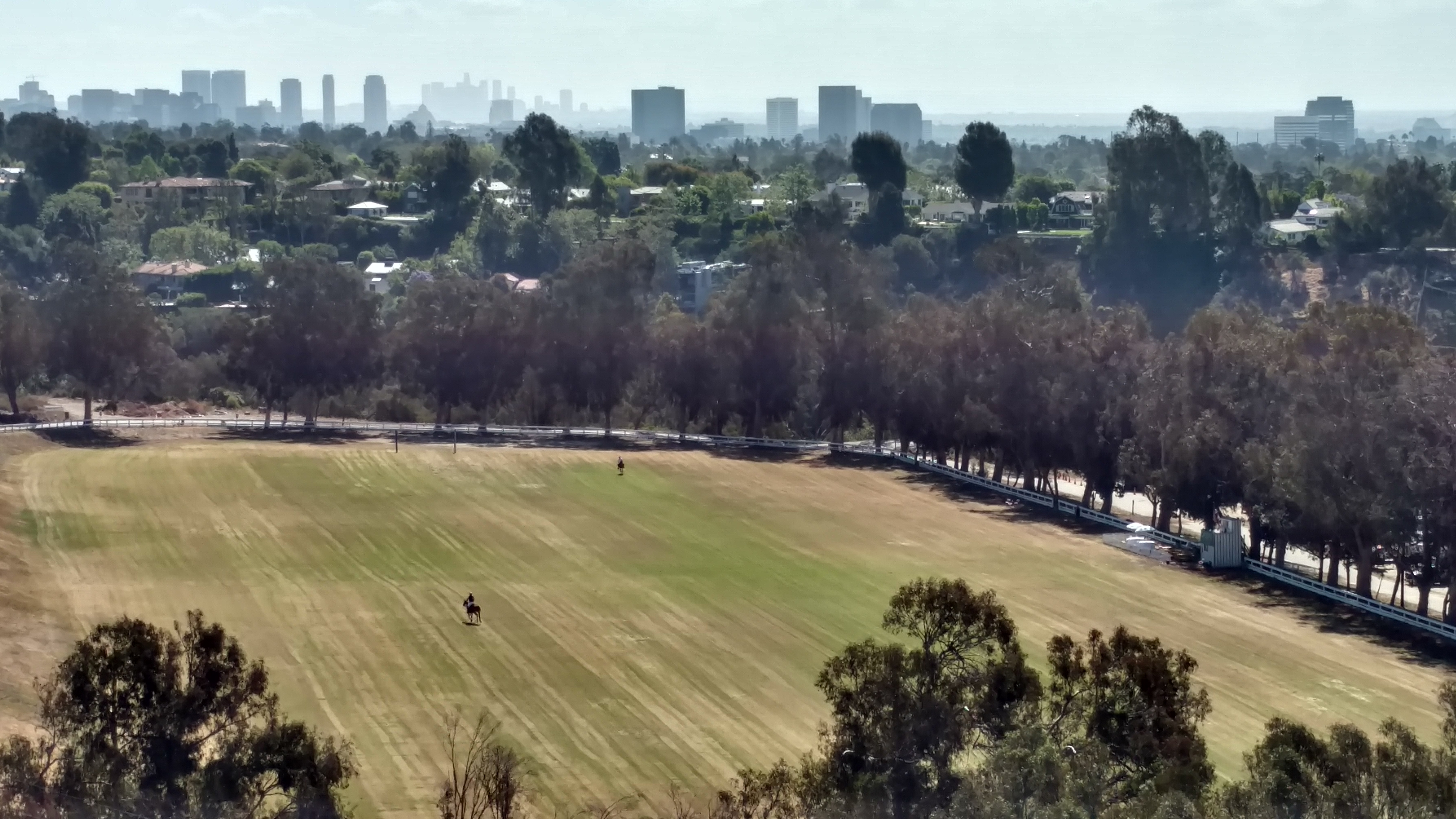 Polo field and Los Angeles skyline from Will Rogers Historic Park